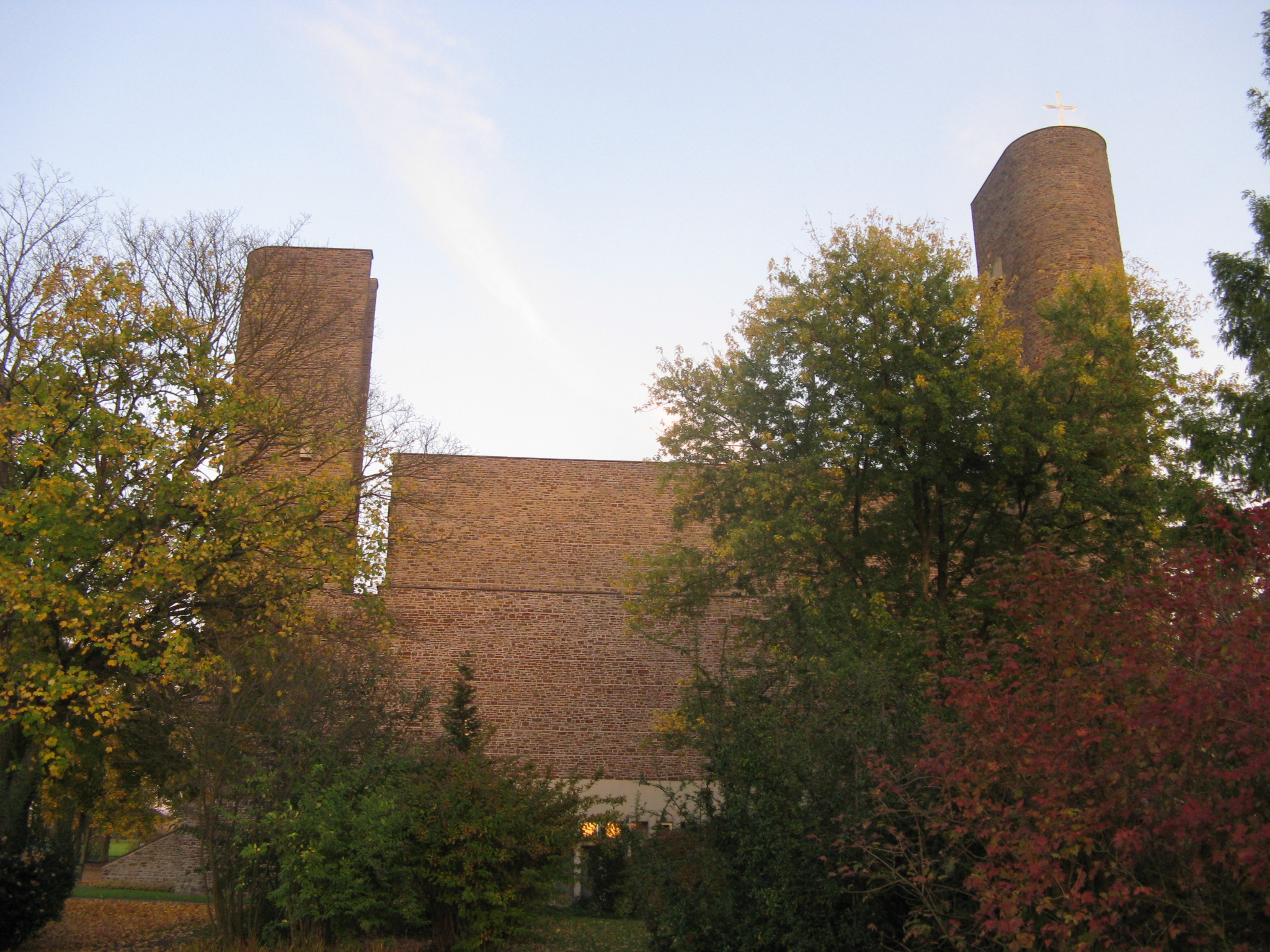 Pater Kentenich Adoration Church, Vallendar/Germany